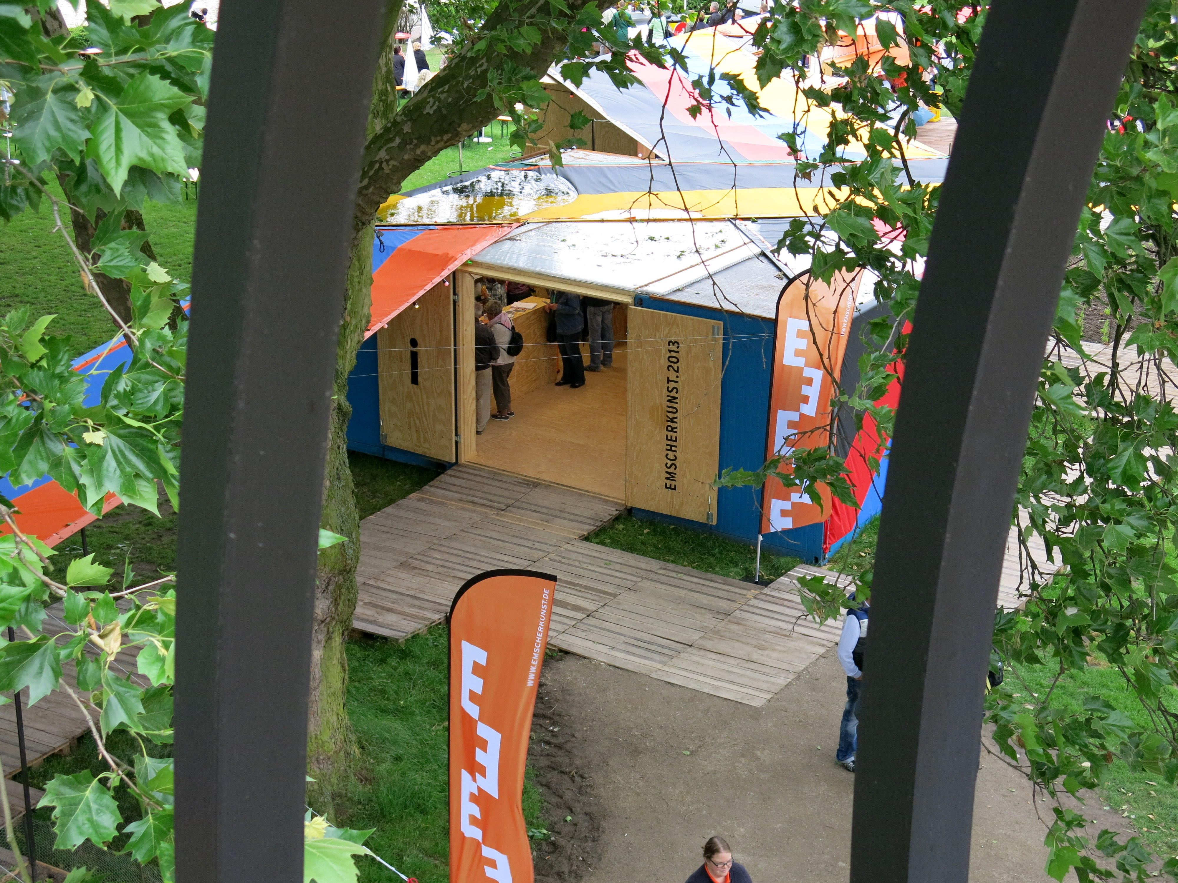 Emscherkunst Art